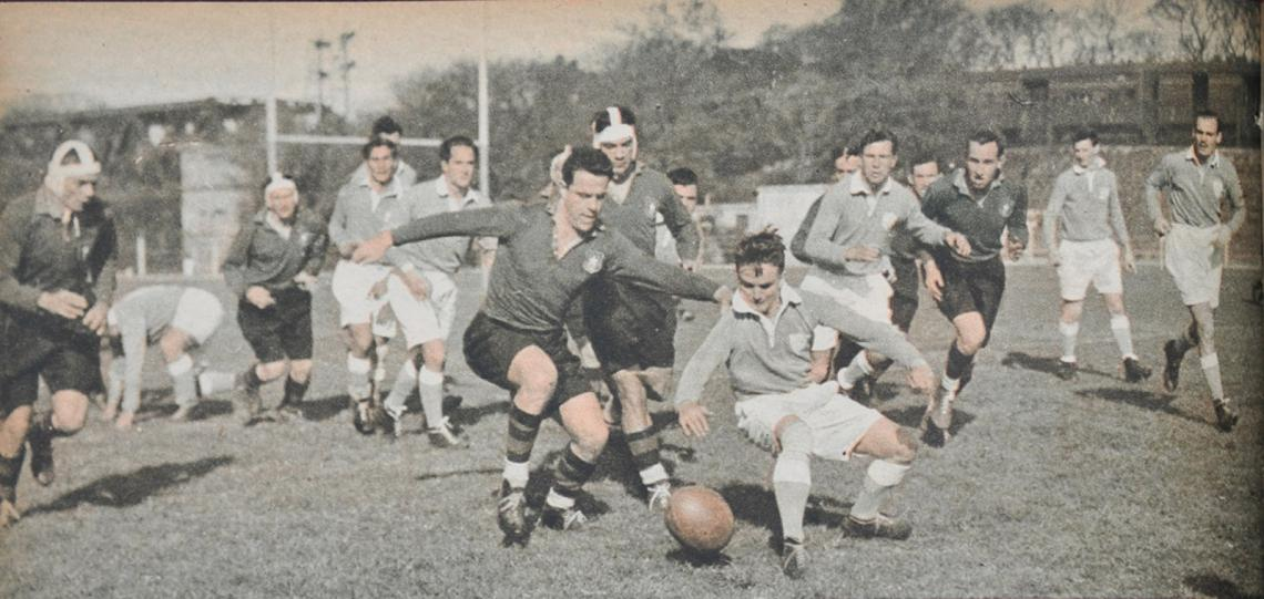 Rugby union match Uruguay vs Chile in Buenos Aires, September 1951. The match was part of the Torneo Internacional (International Tournament) that originally should have been the rugby union tournament of the 1st Pan American Games held in the Argentine Capital city.